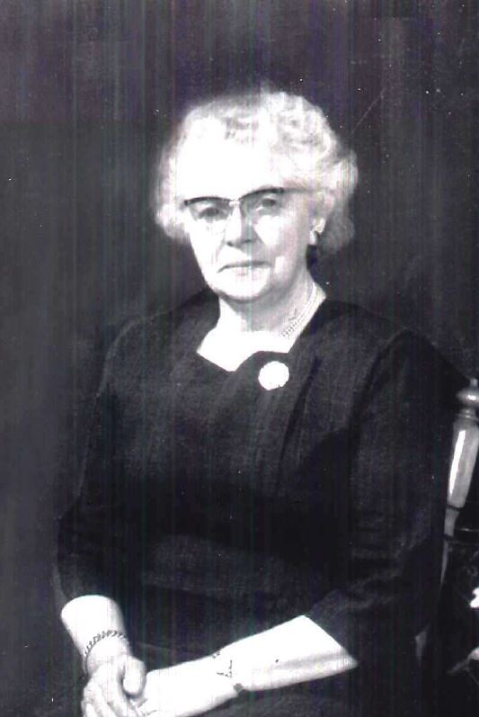 Truus Beuvink-Wensing